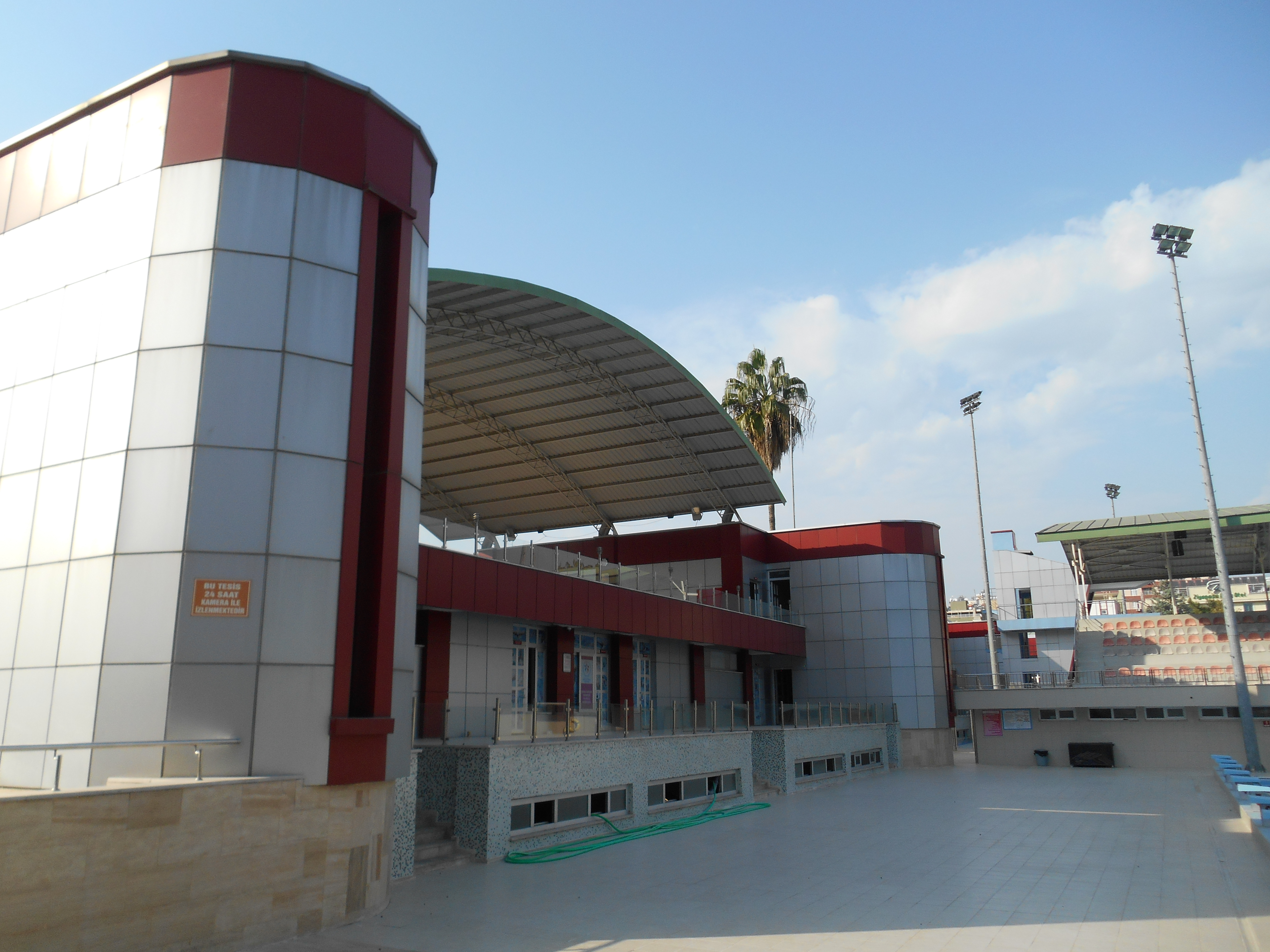 Front view